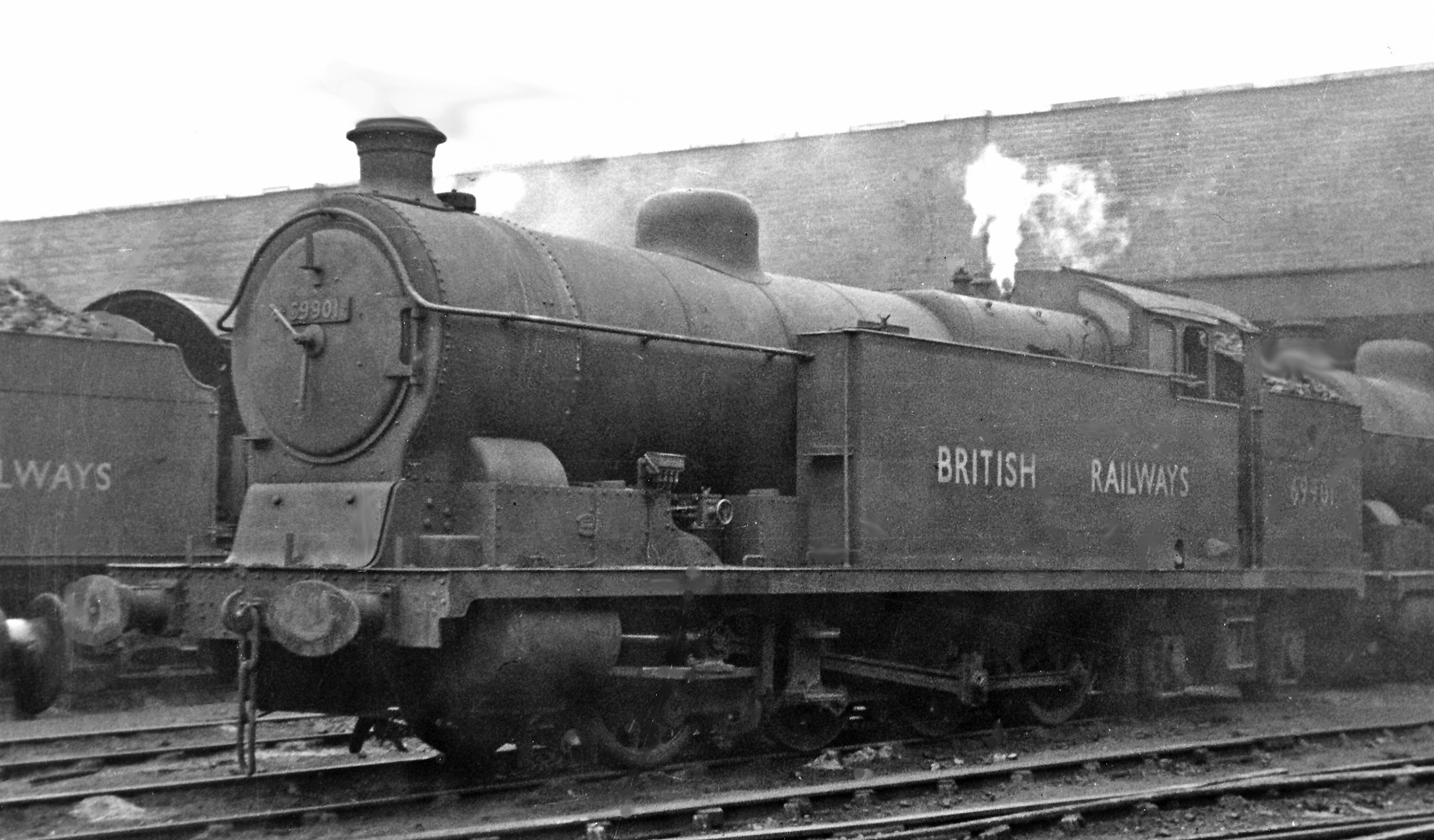 Ex-Great Central 0-8-4T at Mexborough Locomotive Shed. One of six 0-8-4Ts introduced for the GCR by Robinson in 1908 and used for hump-shunting, No. 69901 (LNER Class S1 No. 6171) worked exclusively in Wath Marshalling Yard and lasted until 1/57, when Diesel shunters took over.